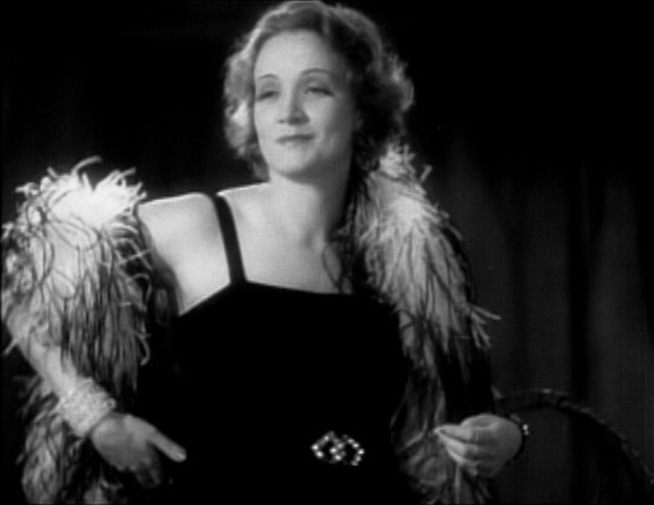 Cropped screenshot of Marlene Dietrich from the trailer for the film Morocco